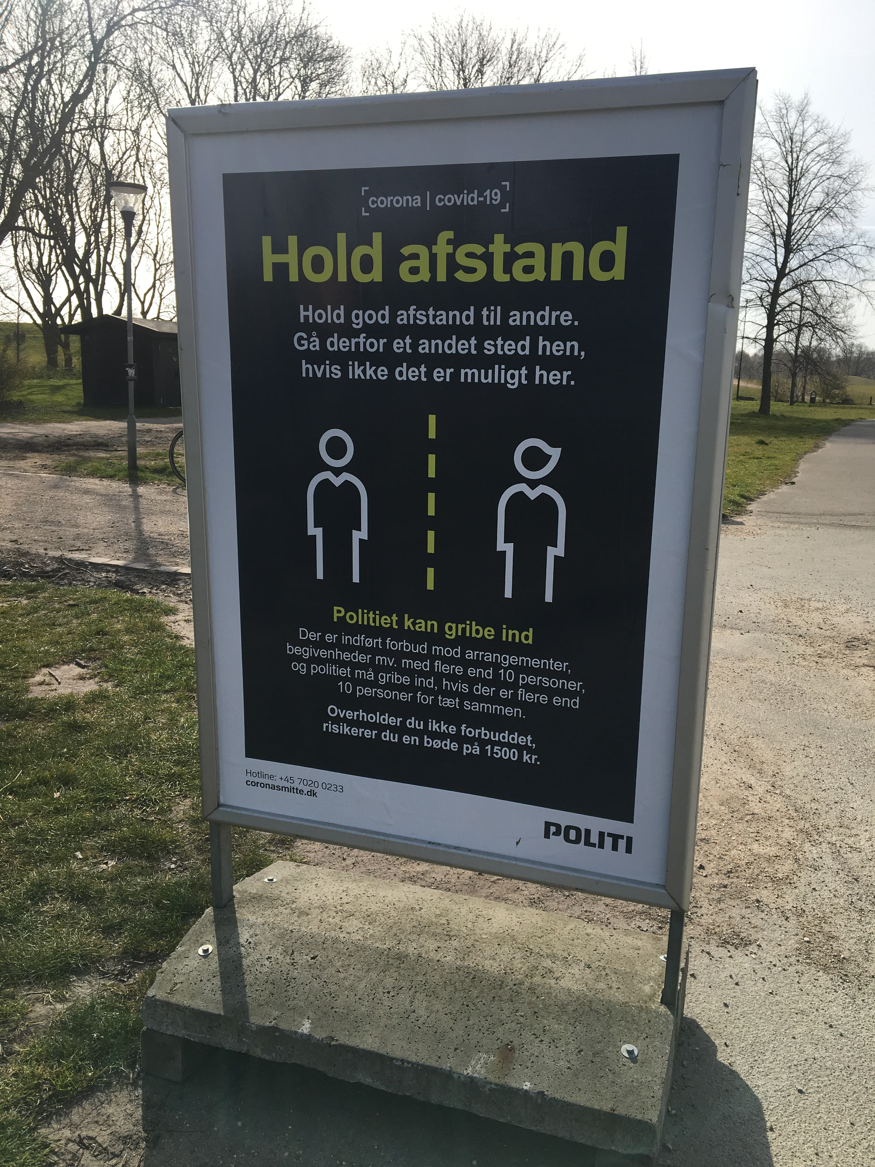 Keep distance - COVID-19 warning sign from Danish Police The sign reads: "Keep distance Keep a safe distance to others Move to a different location, if it isn't possible. The Police can intervene Events etc. with more than 10 participants have been banned, and the police must intervene, if more than 10 people are in too close contact. If you do not comply, you run the risk of being fined 1500 DKK"